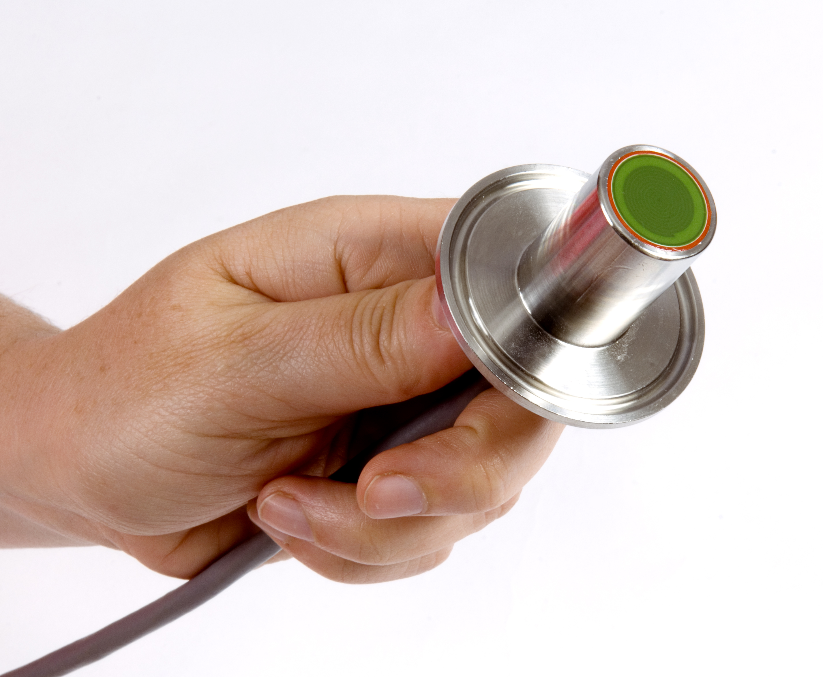 thermal effusivity sensor typically used in the characterization of materials.